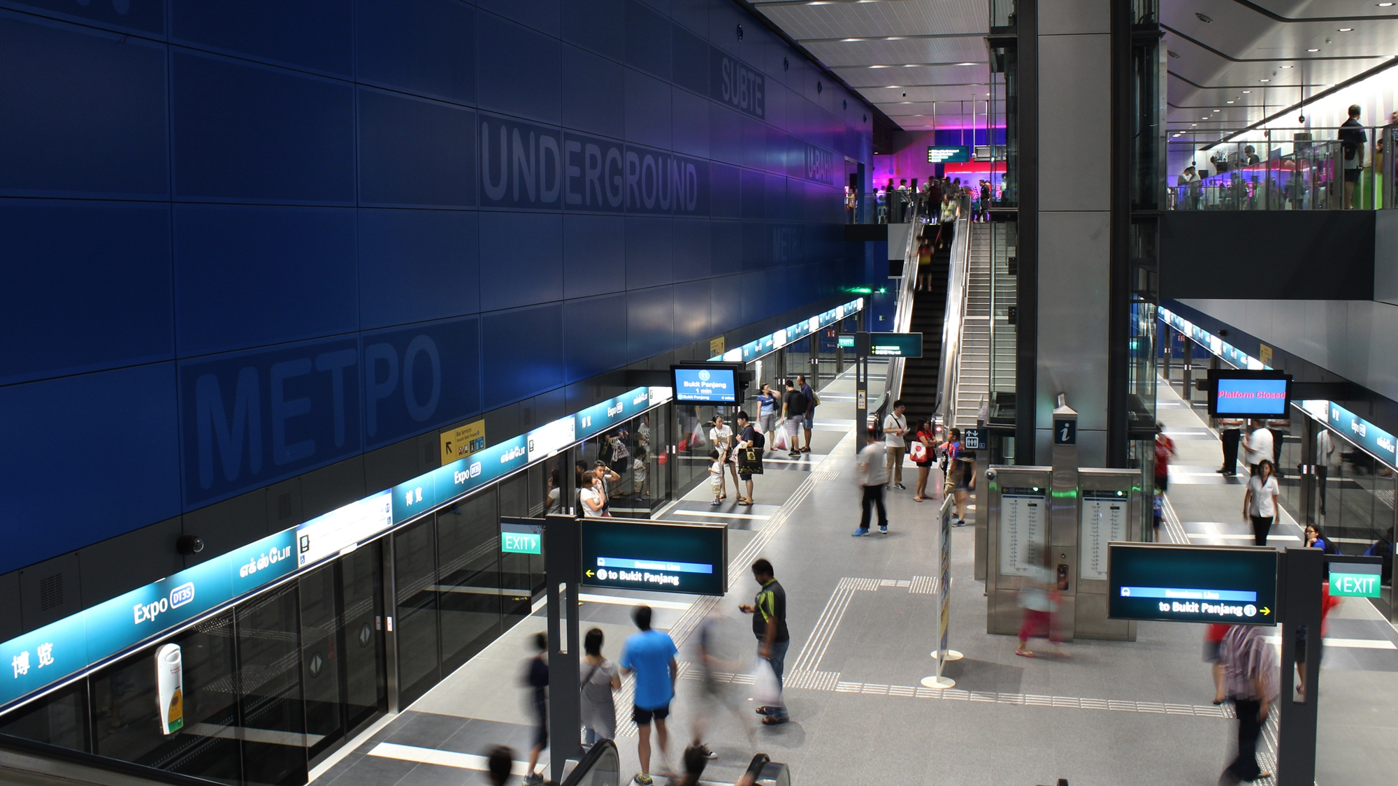 DT35 Expo station